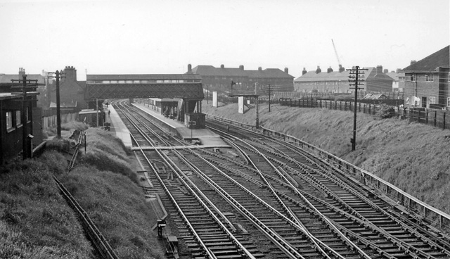 Birkenhead North Station. View WNW, towards West Kirby, Wallasey and New Brighton; Wirral Railway, Liverpool (Central Low Level) - Birkenhead (Hamilton Square) - West Kirby/New Brighton.